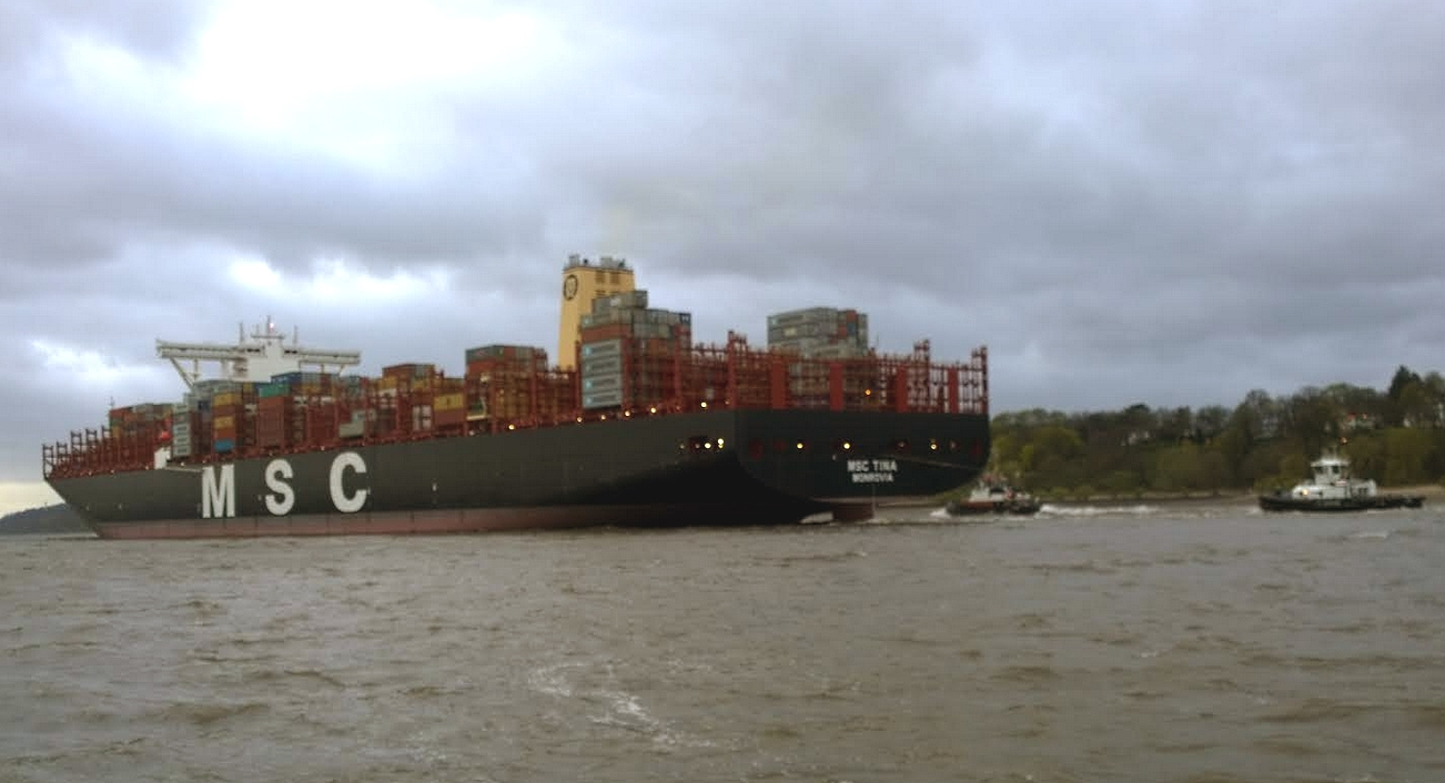 Container ship MSC Tina comes from the port of Hamburg on the river Elbe in April 2017